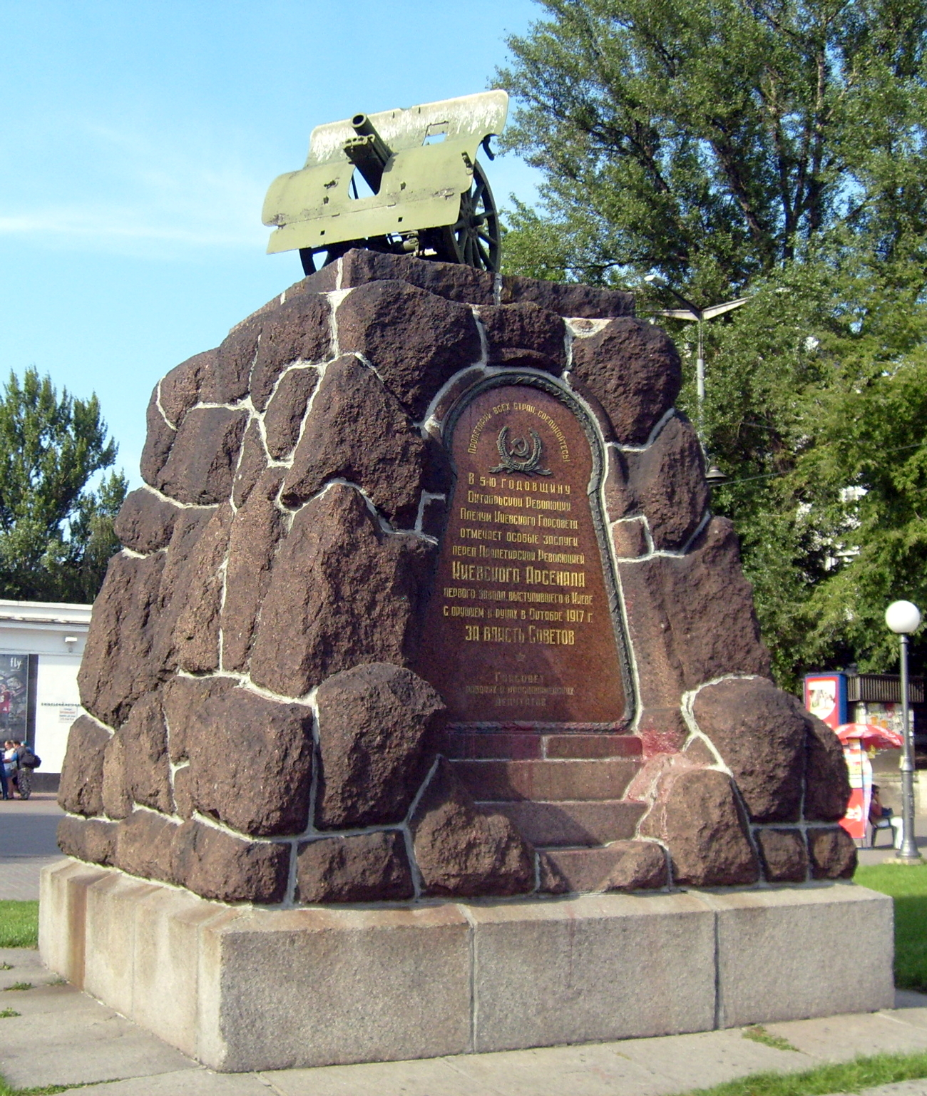 Monument to the Kiev Arsenal factory uprising of 1918. Located in front of Arsenalna metro station.